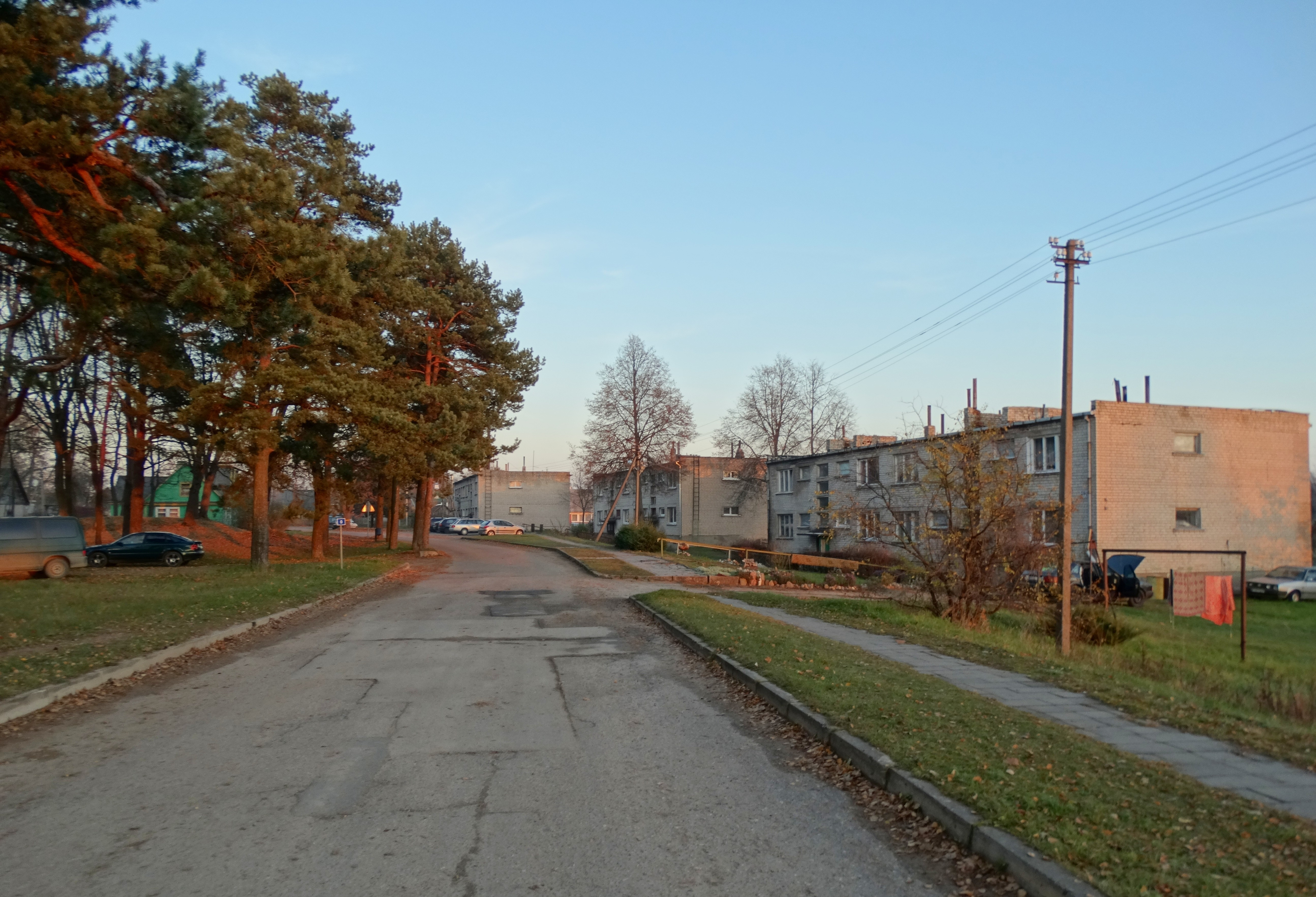 Imbradas, Zarasai district, Lithuania